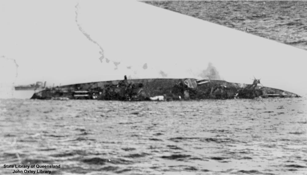 Australia (ship)